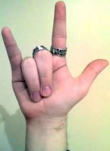 This image is the sign for "I love you".